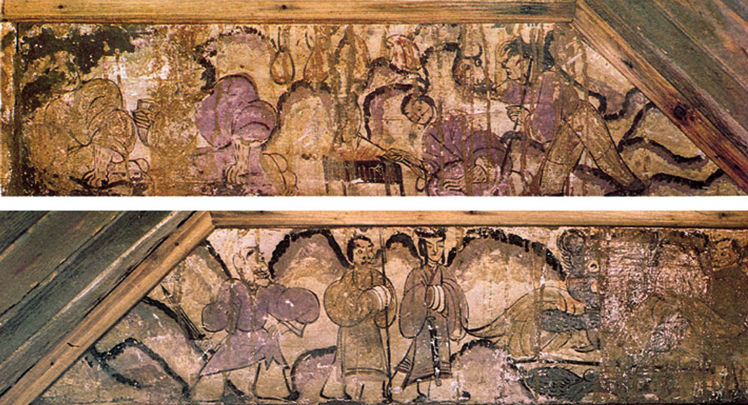 Feast at Hong Gate, depicted in Han, discovered in 1957. Now preserved by 洛阳古墓博物馆.